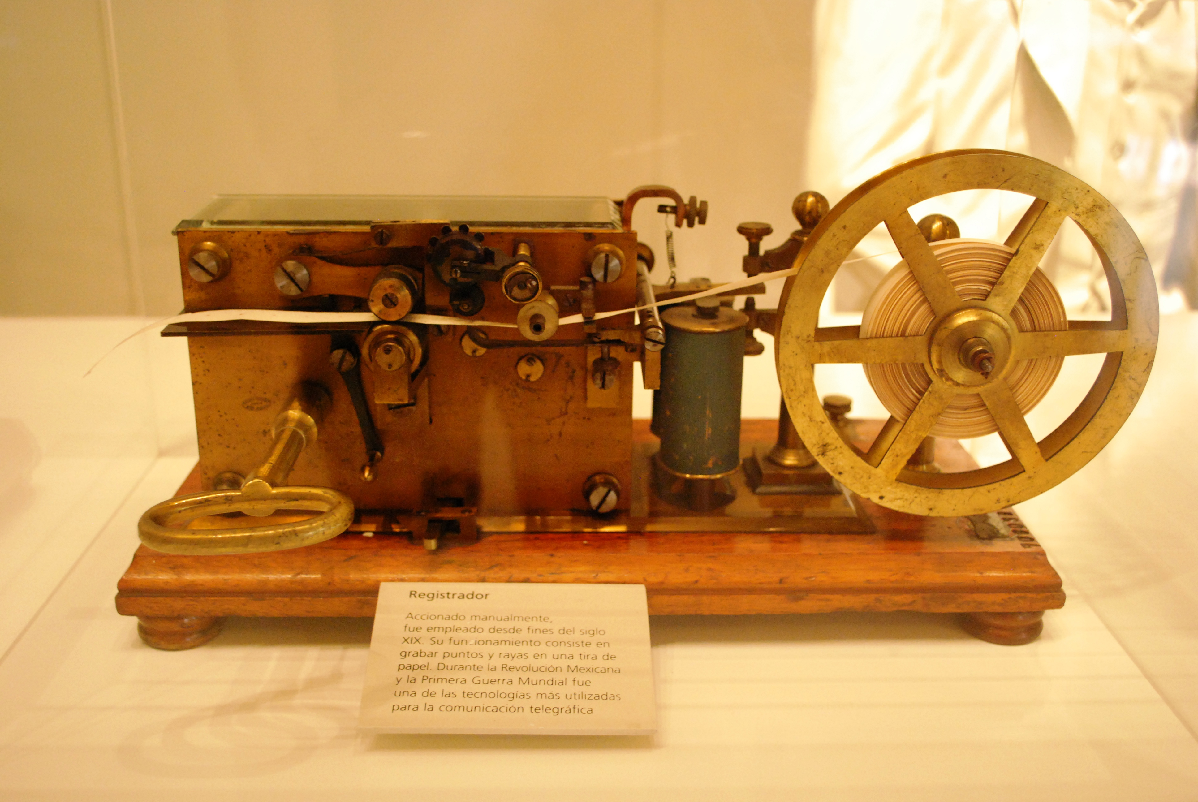 Telegraph printer to print incoming messages at the Telegraph Museum in the historic center of Mexico City